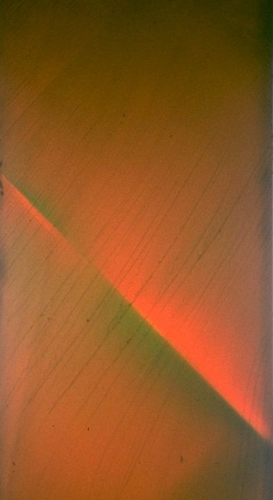 LiF irradiated with gamma. The slip plane is visible as a diagonal line, with compressive forces showing green and tensile forces showing red.